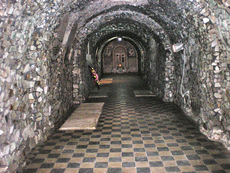 Burial vault of the Paskevich family in Gomel.